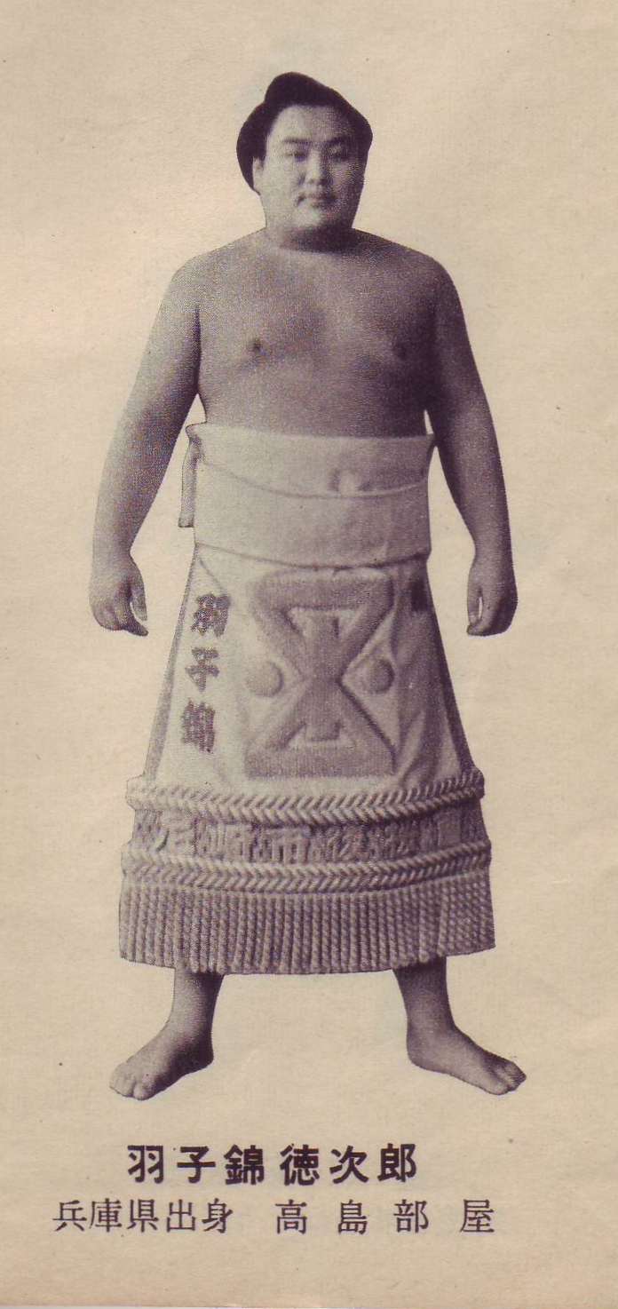 Hanenishiki Tokusaburo (Sumo wrestler from Japan). taken in 1958, or before that.